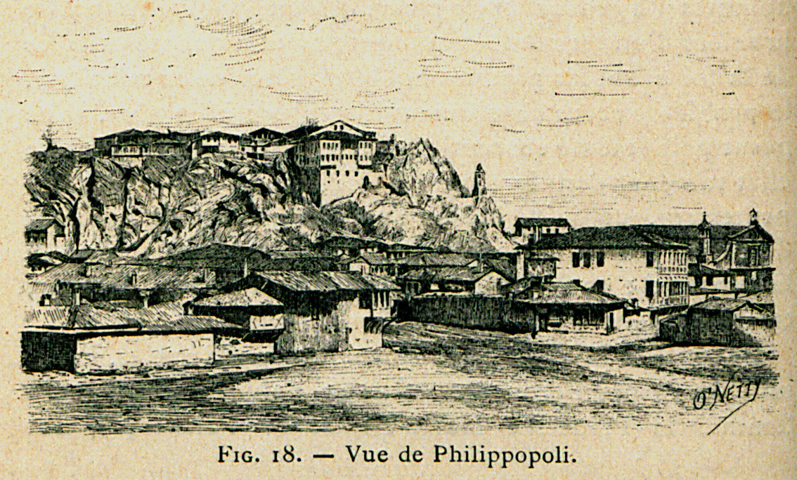 Vue de Philippopoli - Beauregard J - 1896